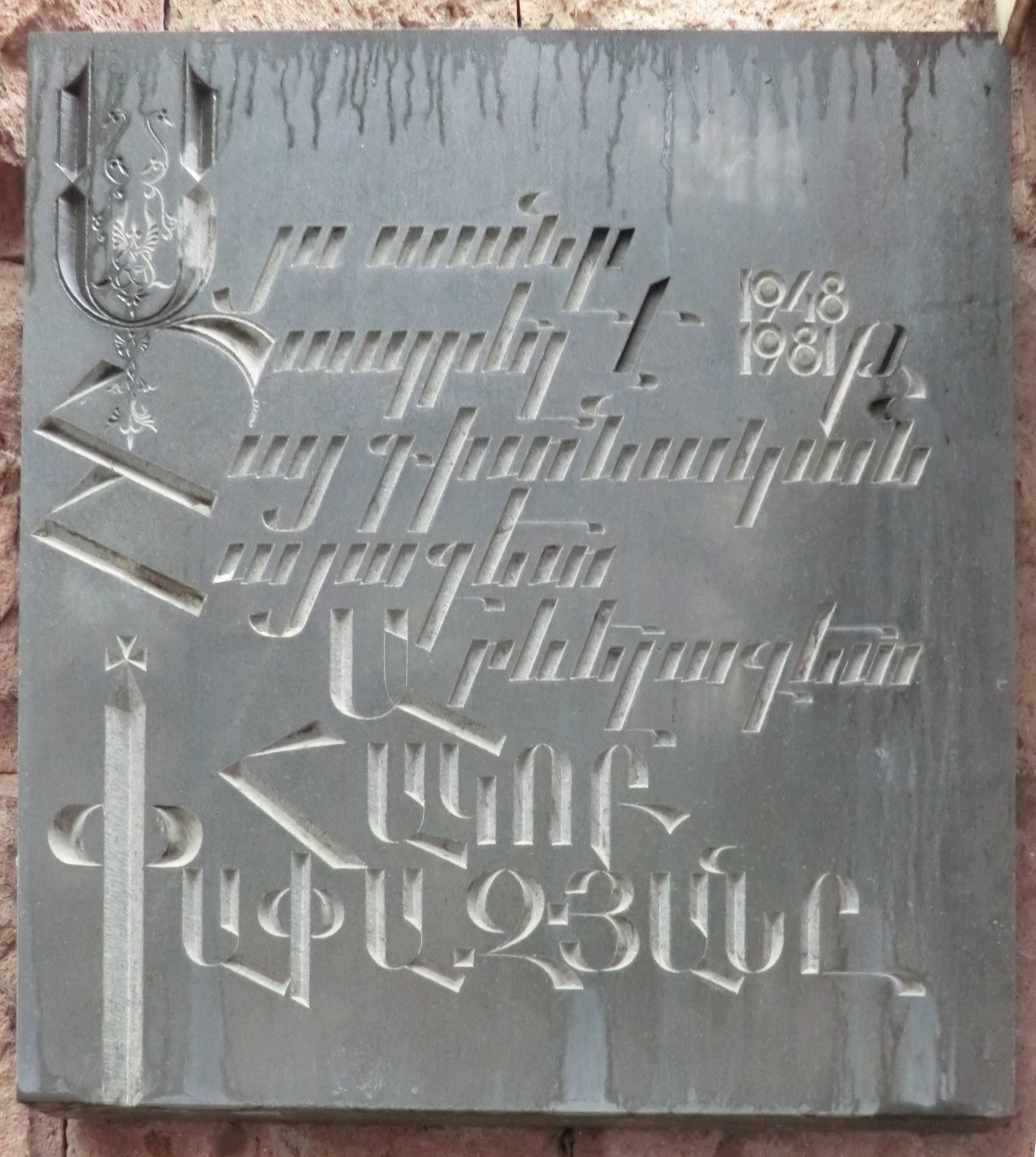 Plaque to Hakob Papazyan in Yerevan